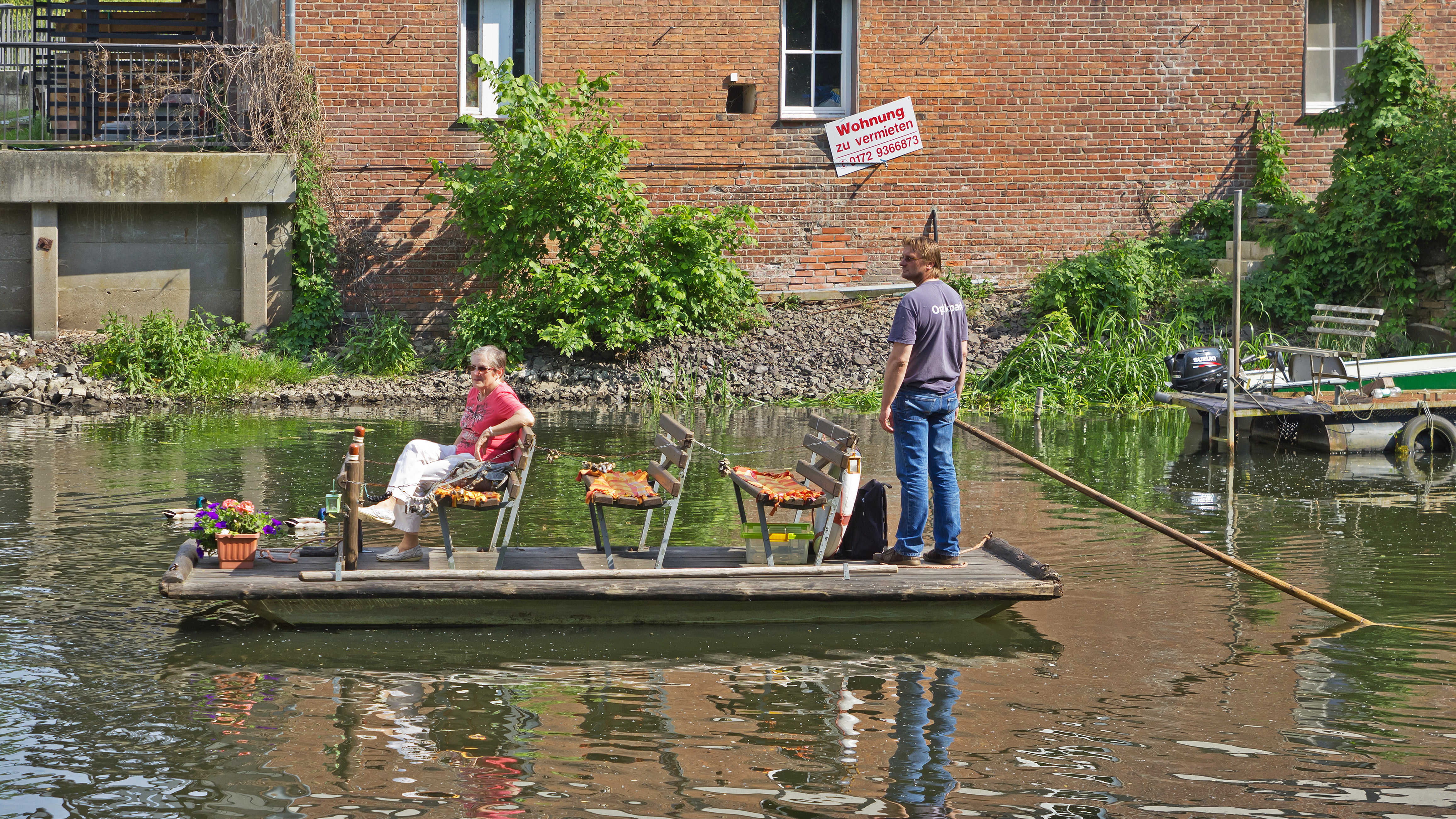 Rathenow, Brandenburg, Germany: Optics Park; a passenger raft